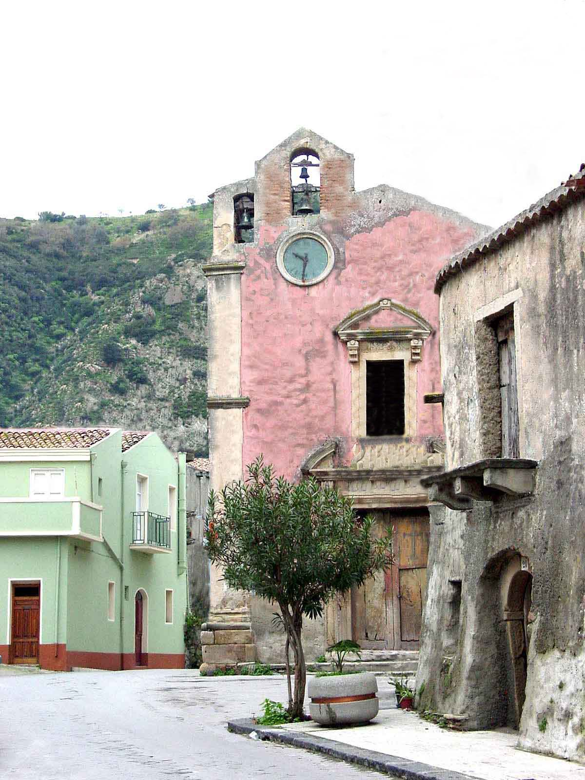 vanni: my own digital image of Piazza San. Rocco inMilici. (ME) Italy